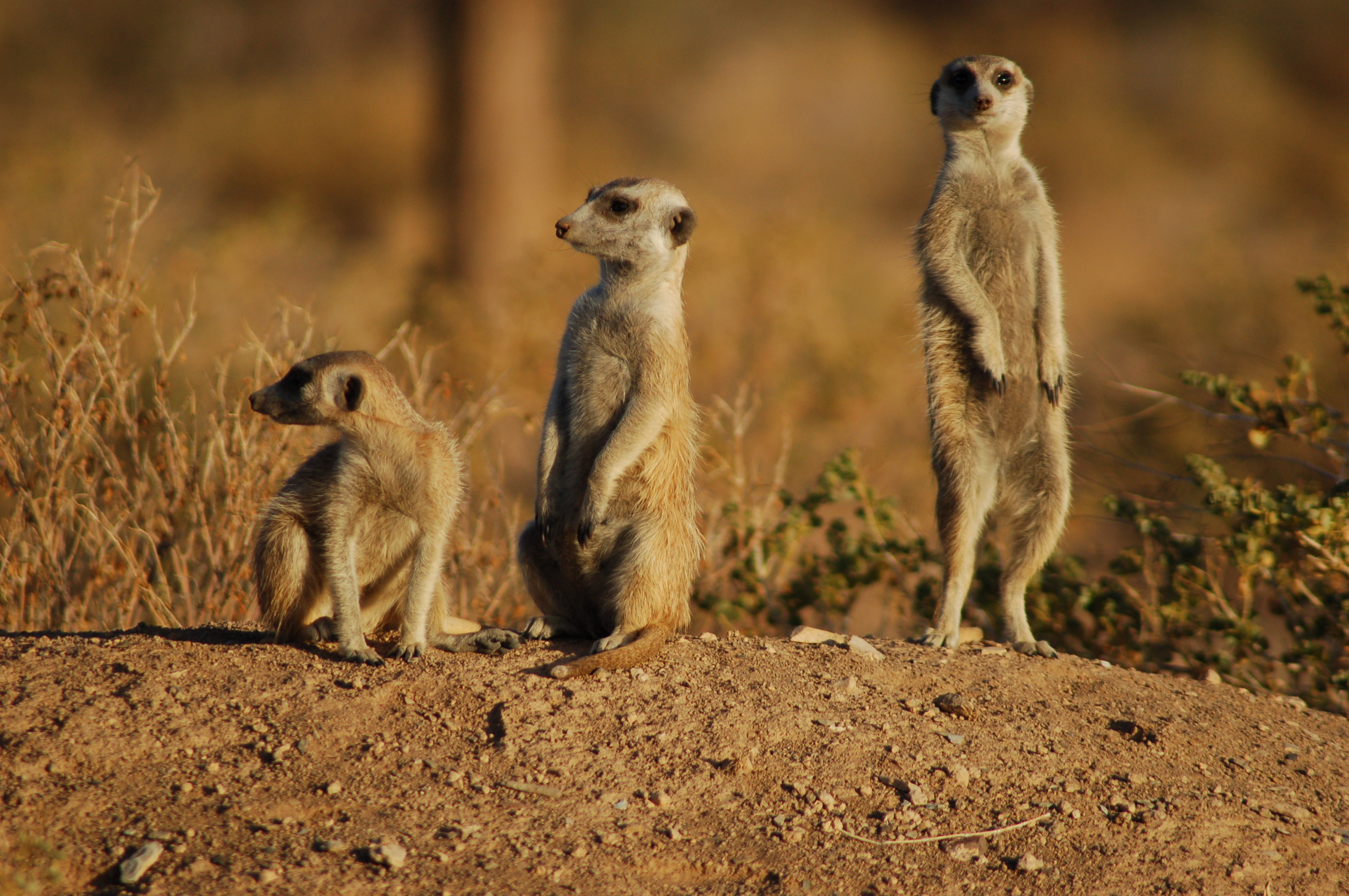 Suricates, Namibia